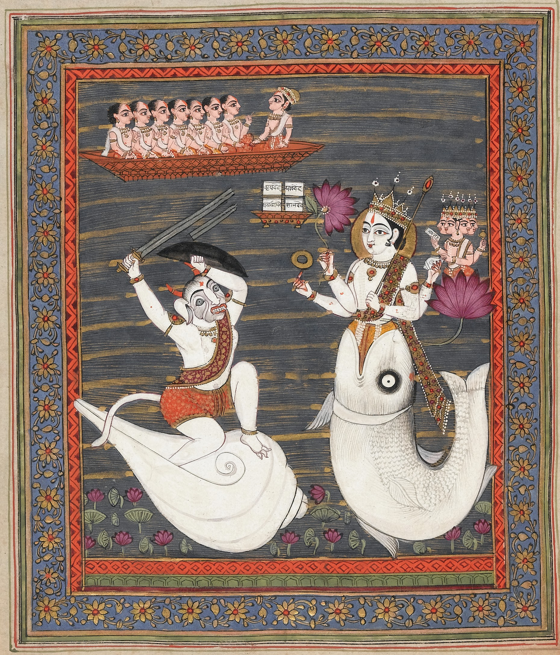 Ink and gouache and gold Mythological scenes. Asian Collection Keywords: Krishna; Sacred Subjects; Mythology